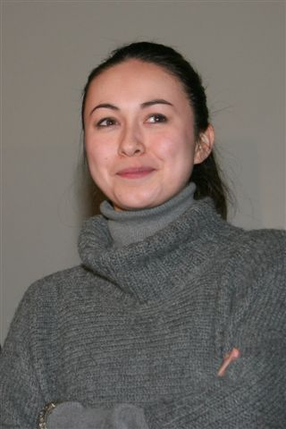 Italian actress Valentina Izumi Cocco